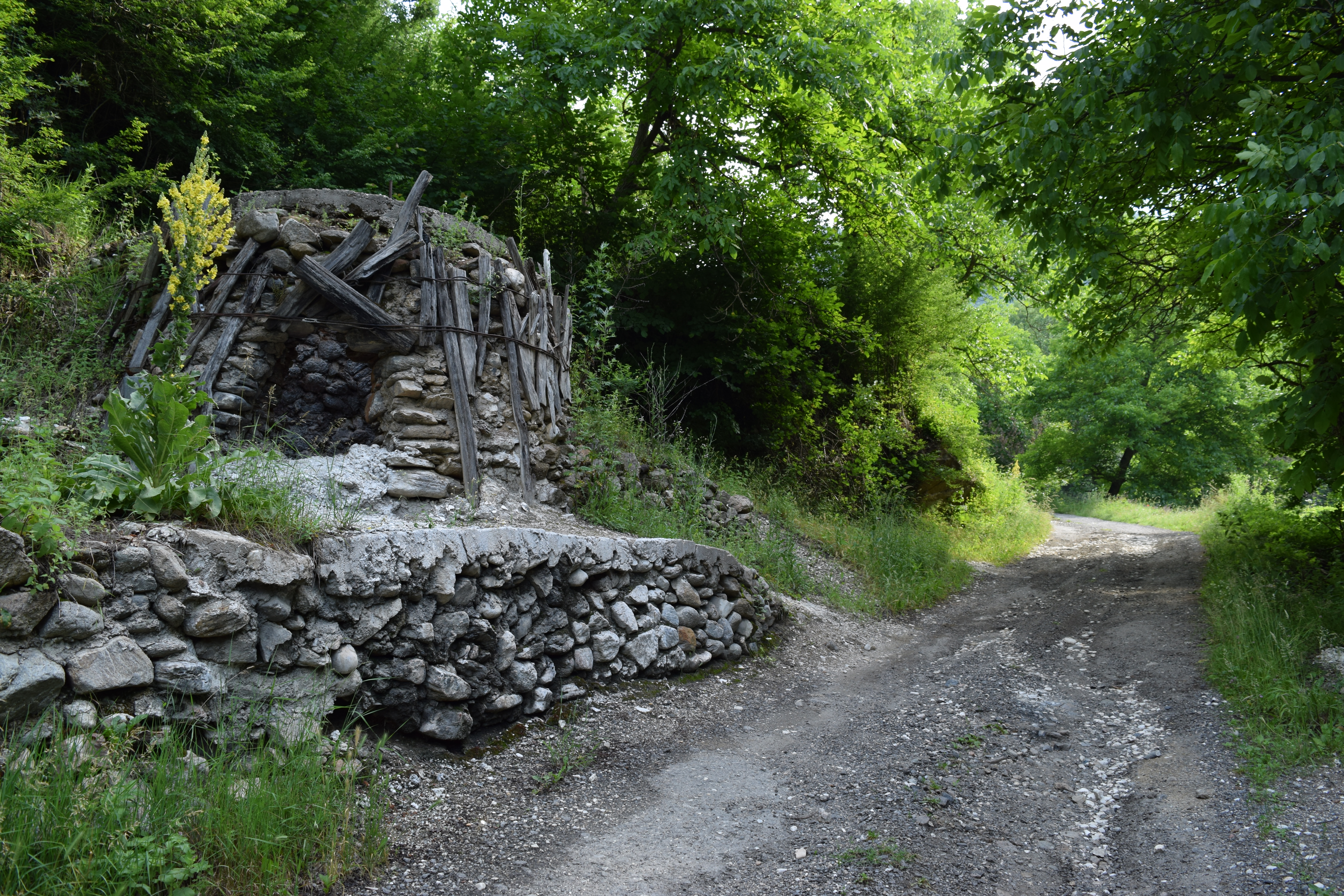 Part of the Wikiexpedition to Azot